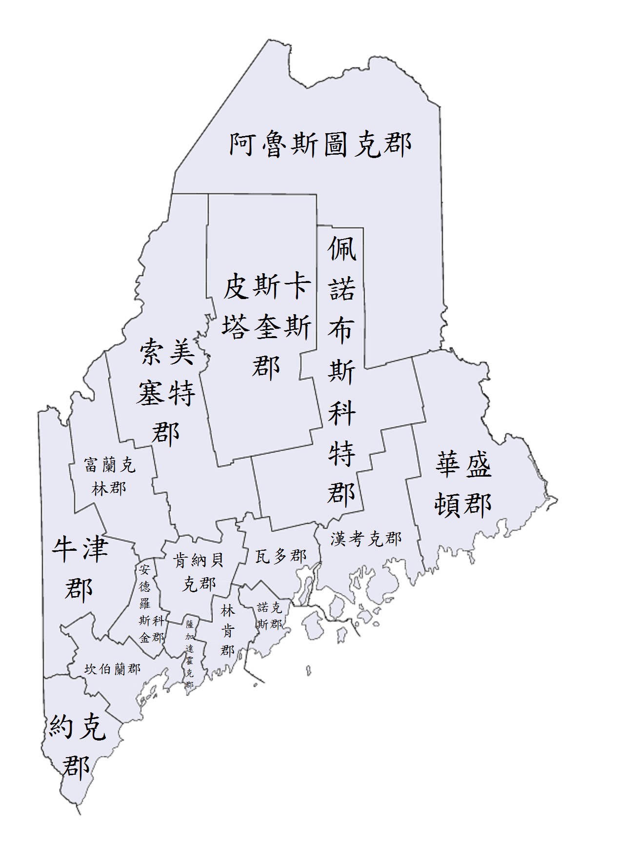 retouched picture of File:Maine-counties-map.gif